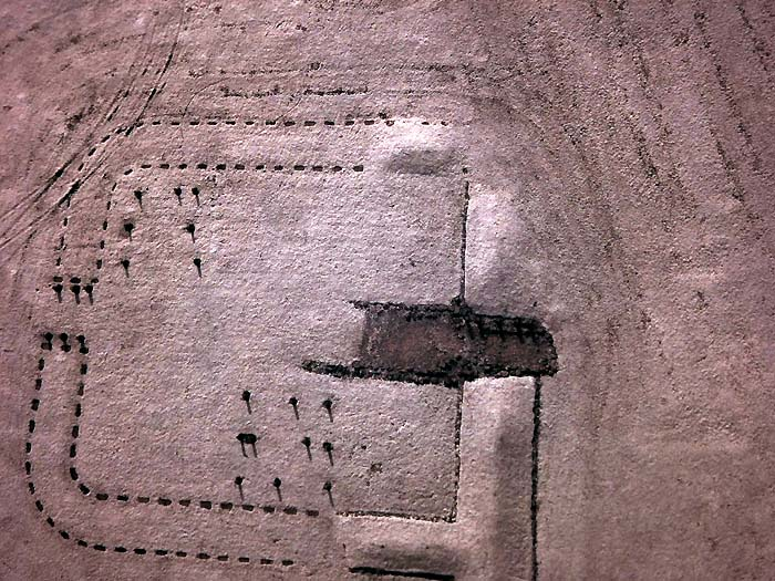 Near infra-red kite aerial photo of Kinneil Roman Fortlet, Falkirk. To the right are two horizontal features which are the outline of old excavation trenches dug 30 years previously